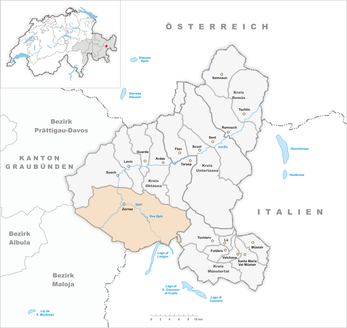 Municipality Zernez